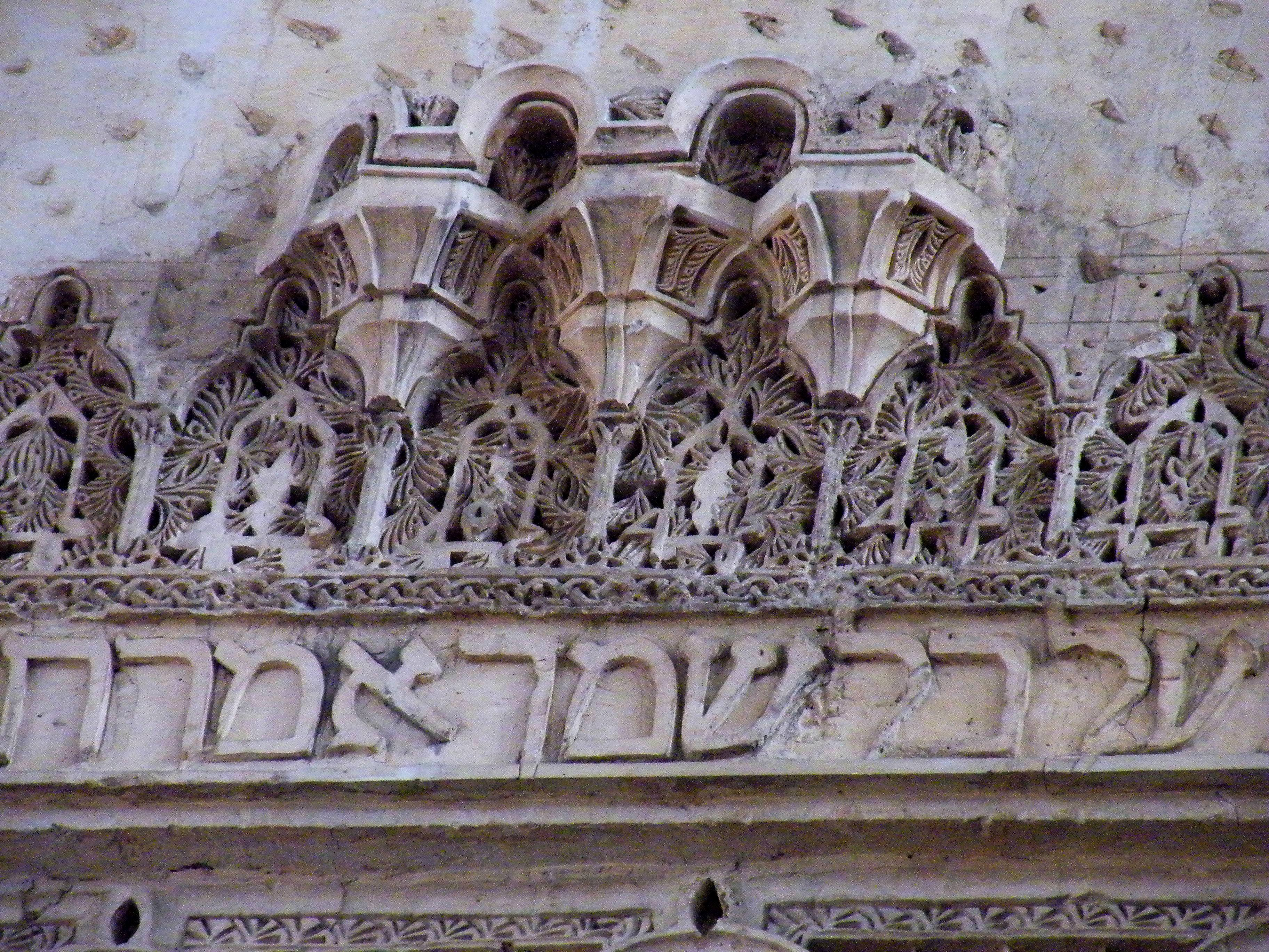 Detail in the Cordoba Synagogue